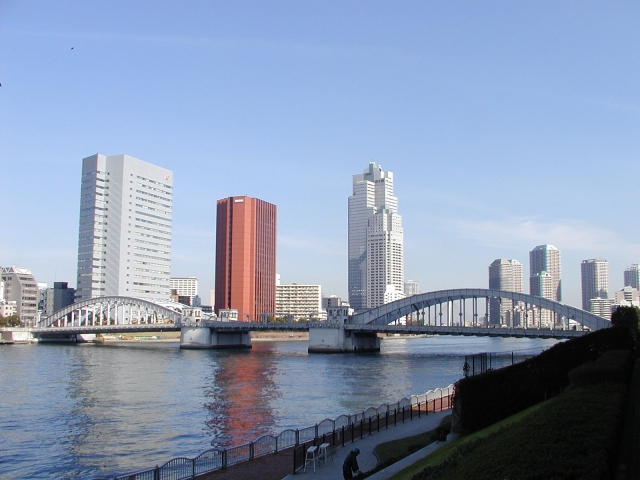 Kachidoki bridge and Tsukiji buildings